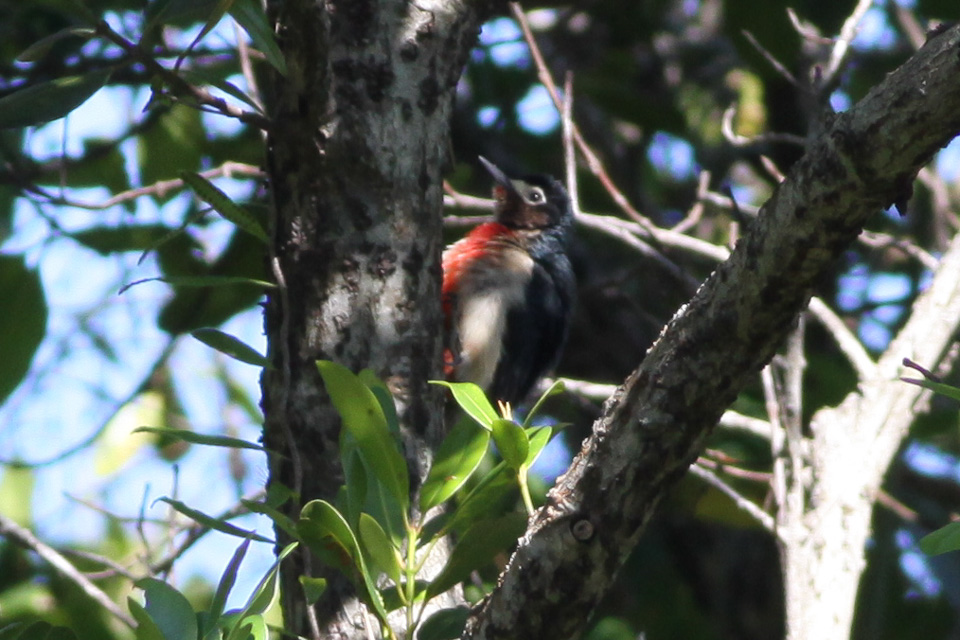 Puerto Rican Woodpecker (Melanerpes portoricensis) at Luquillo, Puerto Rico